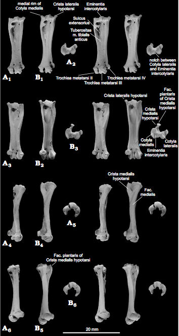 Stereopairs of the holotypic left tarso− metatarsus of miniature owl Glaucidium kurochkini sp. nov. (LACM RLB K9630), late Pleistocene, Rancho La Brea, California, USA (A) and a comparative left tarsometatarsus of Glaucidium californicum Sclater, 1857 (UCLA 38395), Recent, Western North Amer− ica (B), in anterodorsal (A1, B1), posteroventral (A3, B2), medial (A4, B4), lateral (A6, B5), pro− ximal (A2, B3), and distal (A5, B6) views. Ab− breviations: Fac., Facies; m., musculus.